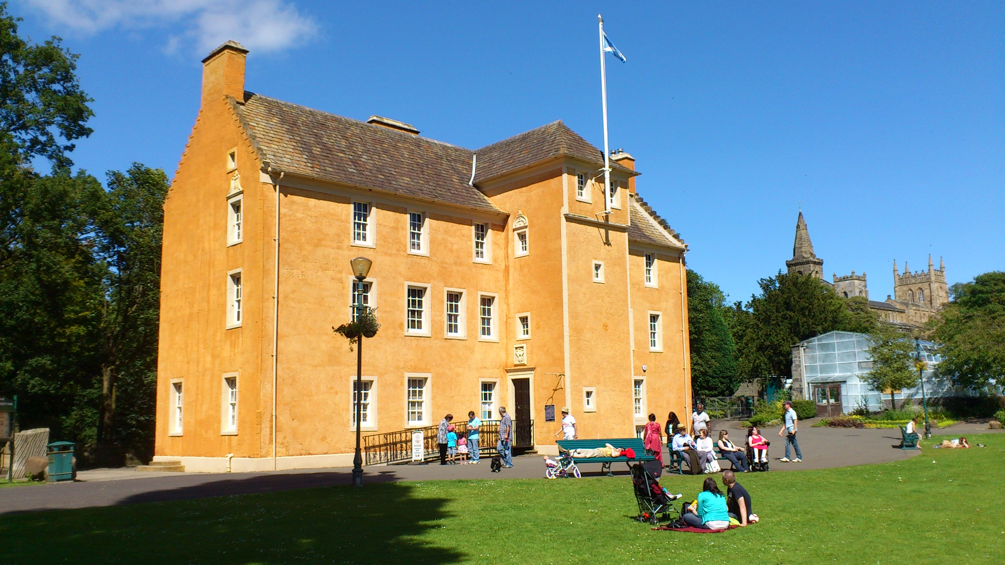 Pittencrieff House recently restored to its original coloured render.